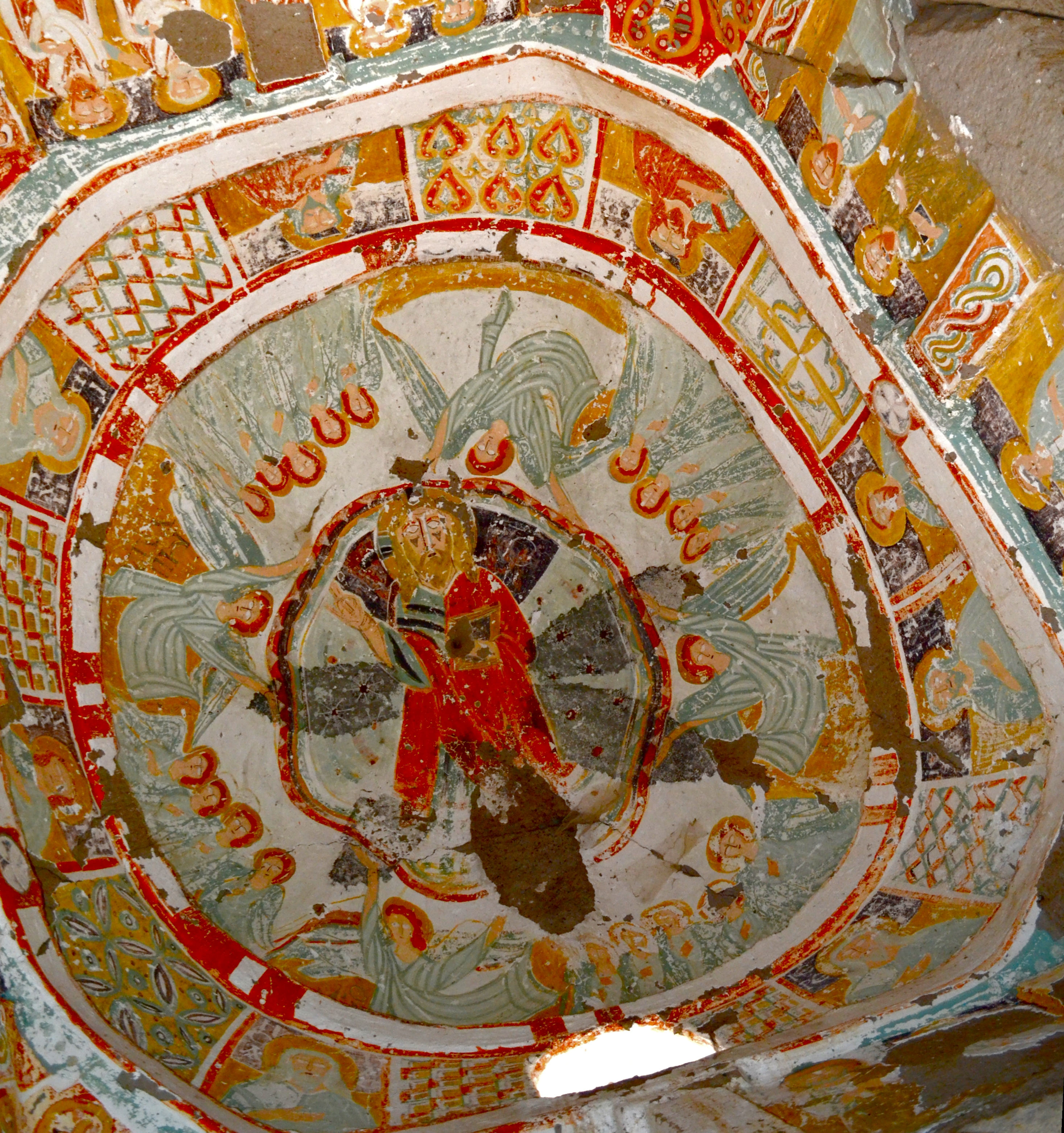 Frescoed ceiling in Ağaçalti Kilise (St.Daniel's Church), Ihlara valley, Turkey